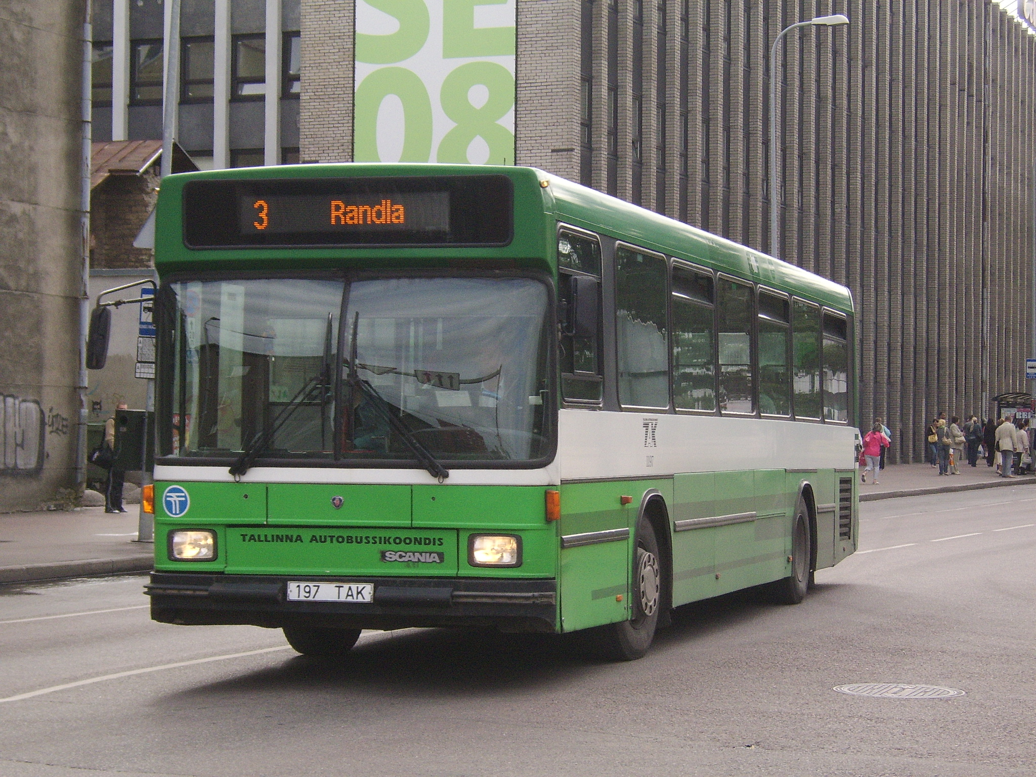 A Scania L94UB Hess-type city bus in Tallinn, Gonsiori street.